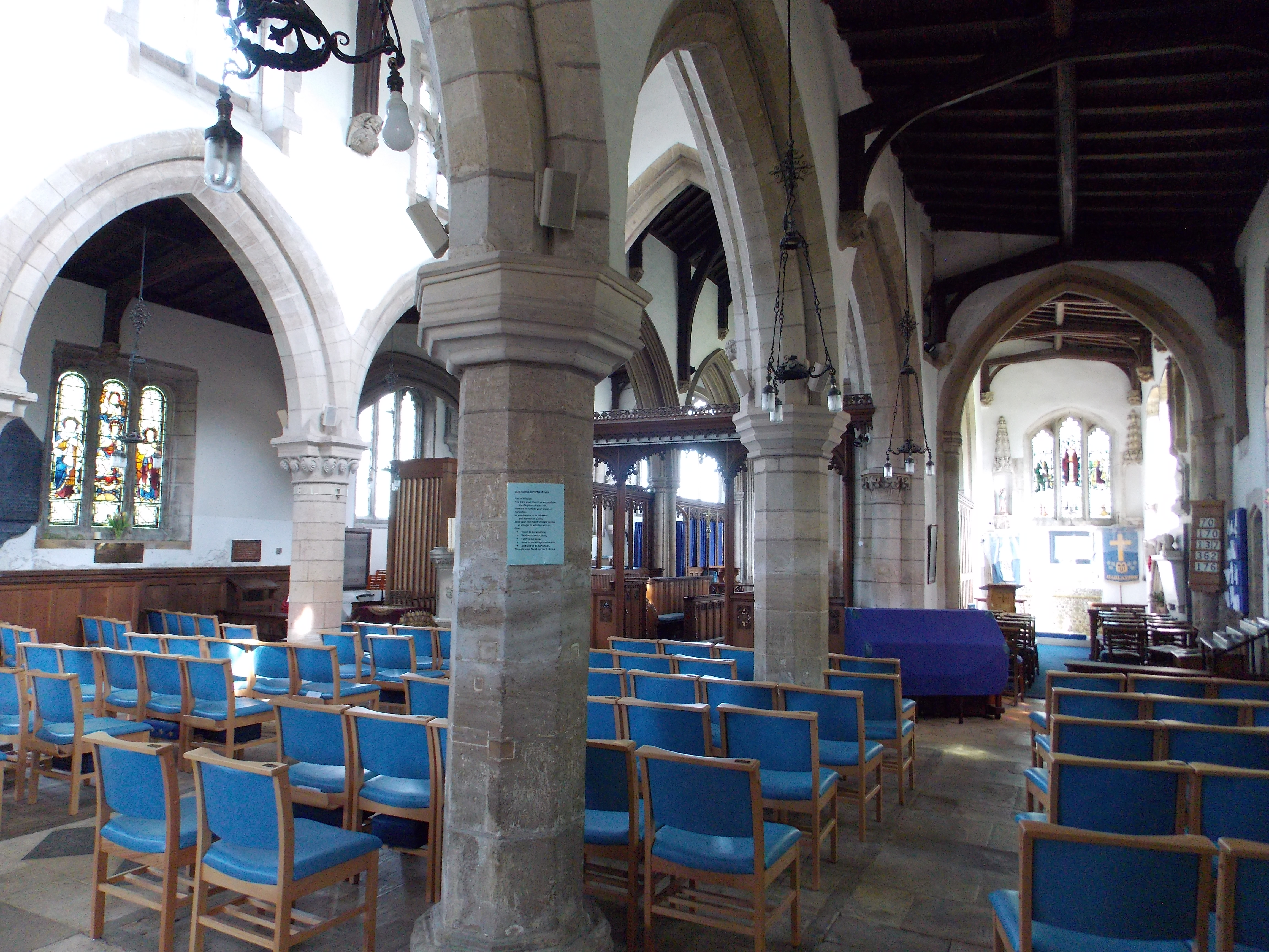 Harlaxton St Mary and St Peter's Church – view to Nave from South Aisle